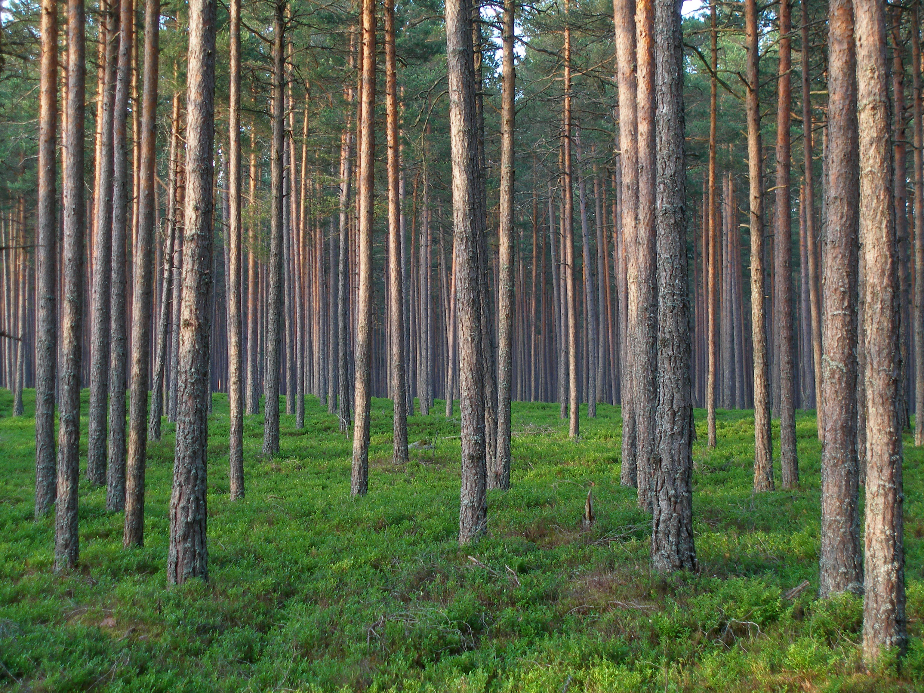 Pine forest in Läänemaa, Estonia.